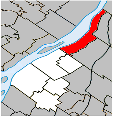 Location of Contrecoeur, Quebec within Lajemmerais Regional County Municipality.